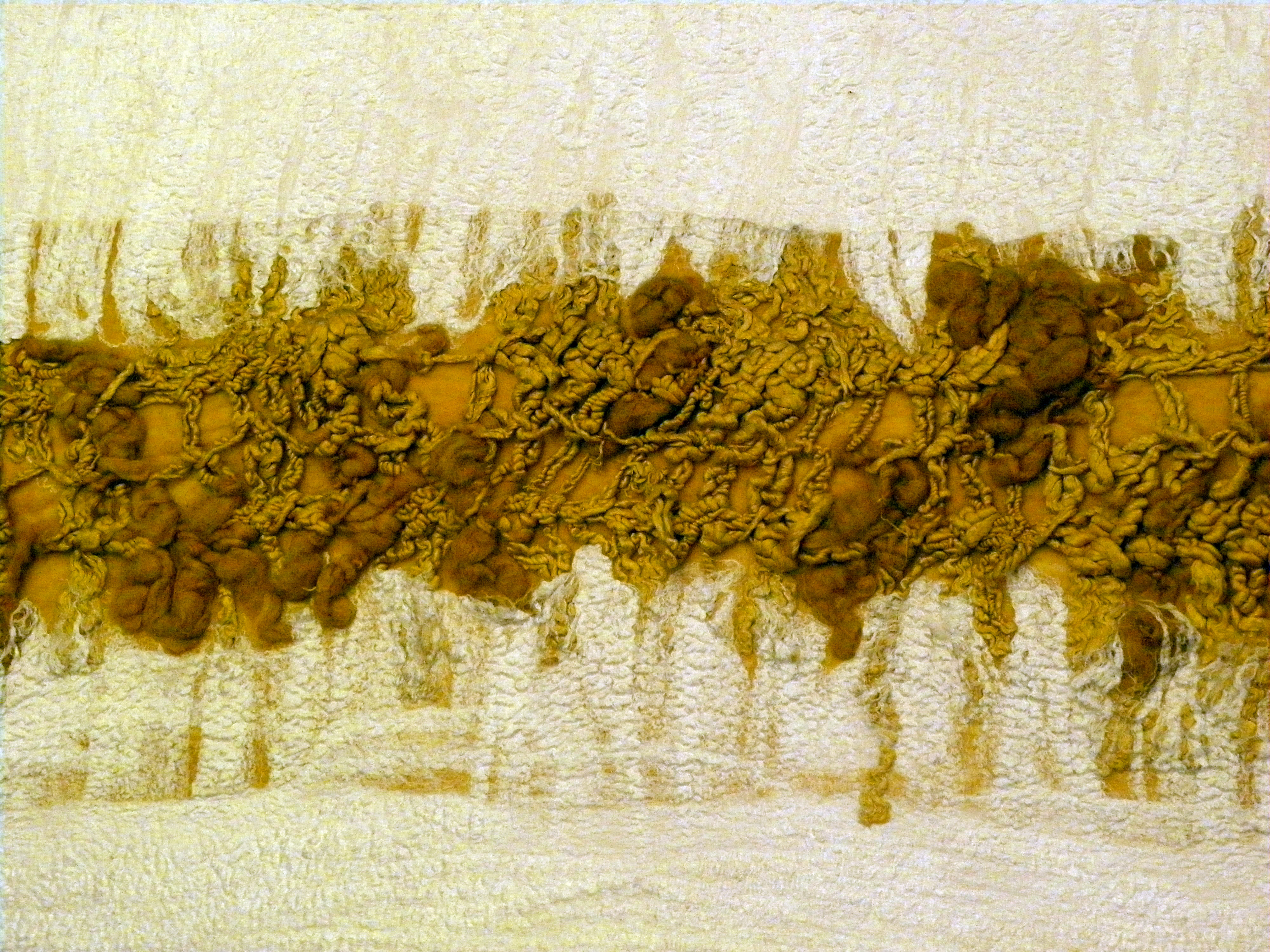 Detail of art work Claudy Jongstra behind membership desk Openbare Bibliotheek Amsterdam